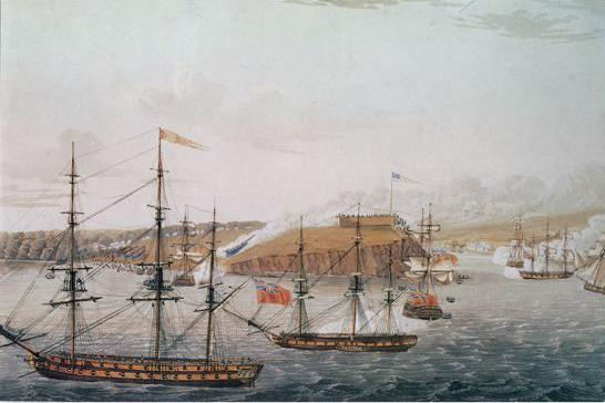 Attack on Fort Oswego (May 1814), War of 1812